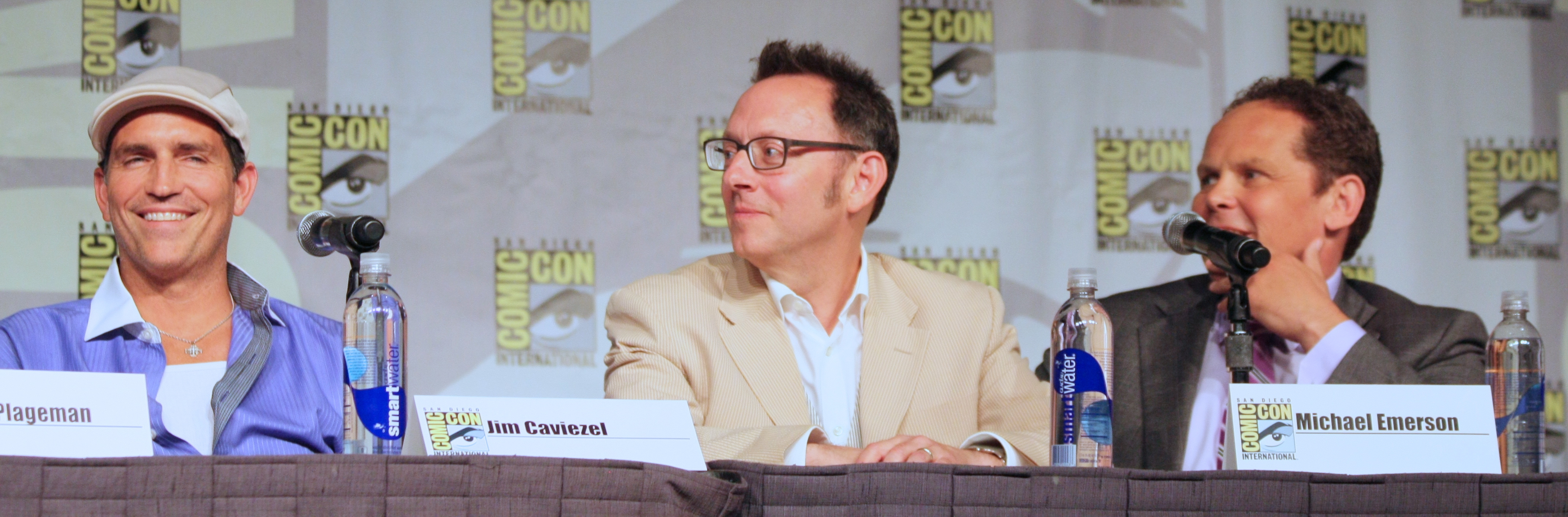 Jim Caviezel (John), Michael Emerson (Harold), Kevin Chapman (Lionel) Person of Interest Panel at the 2014 San Diego Comic Con